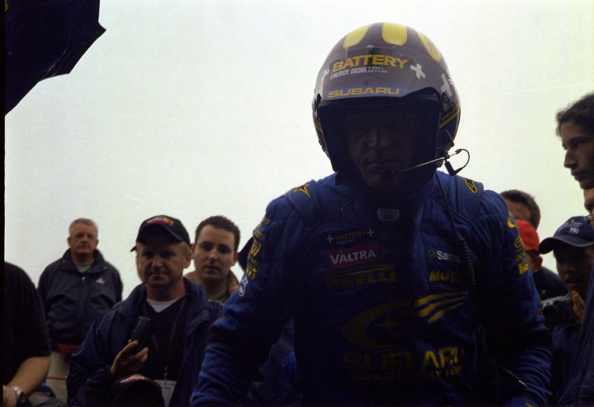 Tommi Mäkinen in Subaru Impreza WRC 2002 during Rallye Deutschland